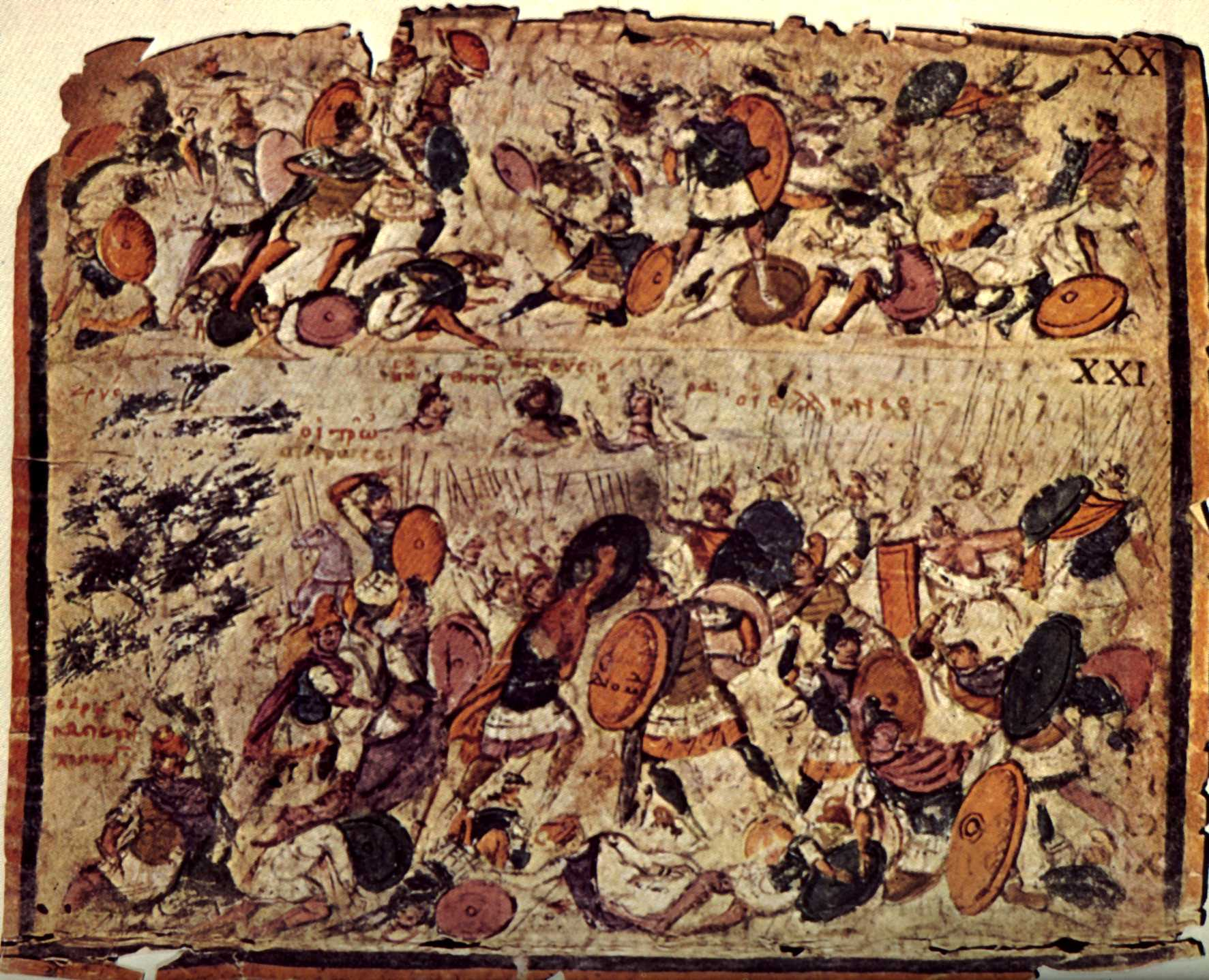 Pictures 20 and 21 of the Ambrosian Iliad, Battle scenes from Iliad Book 5. According to Richard Brilliant, "Mythology," in Kurt Weismann, ed., Age of Spirituality: Late Antique and Early Christian Art, Third to Seventh Century: Catalogue of the Exhibition at the Metropolitan Museum of Art, November 19, 1977 Through February 12, 1978, New York: Metropolitan Museum of Art, 1979, p. 216, the lower scene features a wounded Sarpedon resting under an oak tree, as in Iliad 5.684-698. Above this battle scene hover Athena, Zeus, and Hera. The main character in the upper scene is identified as Menelaus from Iliad 5.562-3. C. P. Bare, Achilles and the Roman Aristocrat: The Ambrosian Iliad as a Social Statement in the Late Antique Period, Dissertation, Florida State University, 2009, p. 194 [1] suggests that picture 20 may have Ajax drawing the spear from the body of Amphius and Menesthes and Anchialus killed by Hector, while picture 21 may have Tleopolemus killed by Sarpedon, Odysseus raging against the Lycians, and Sarpedon placed under a tree